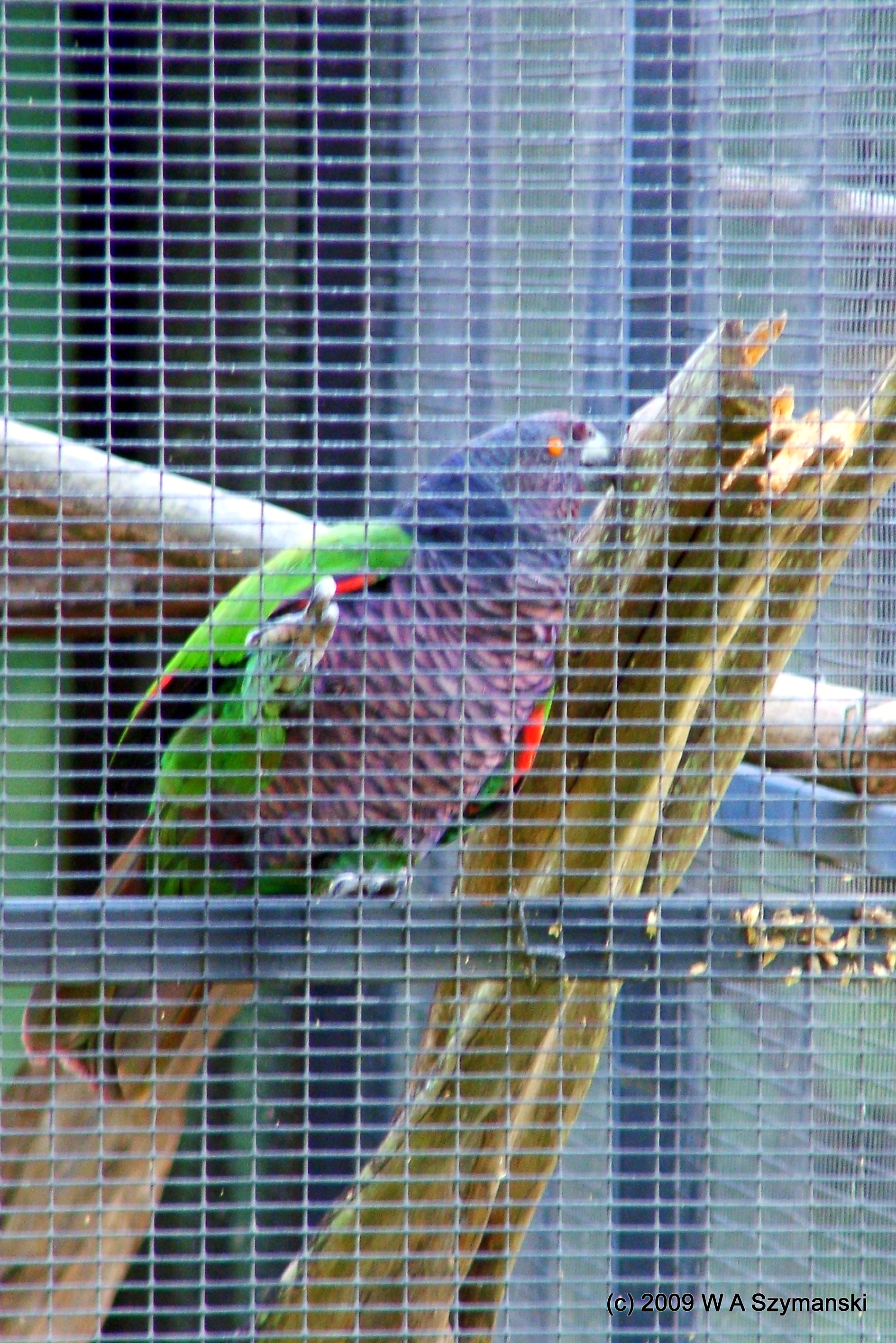 Imperial Amazon (also known as the Imperial Parrot and Sisserou Parrot) at the Parrot Conservation and Research Centre Botanical Gardens, Roseau, Dominica.